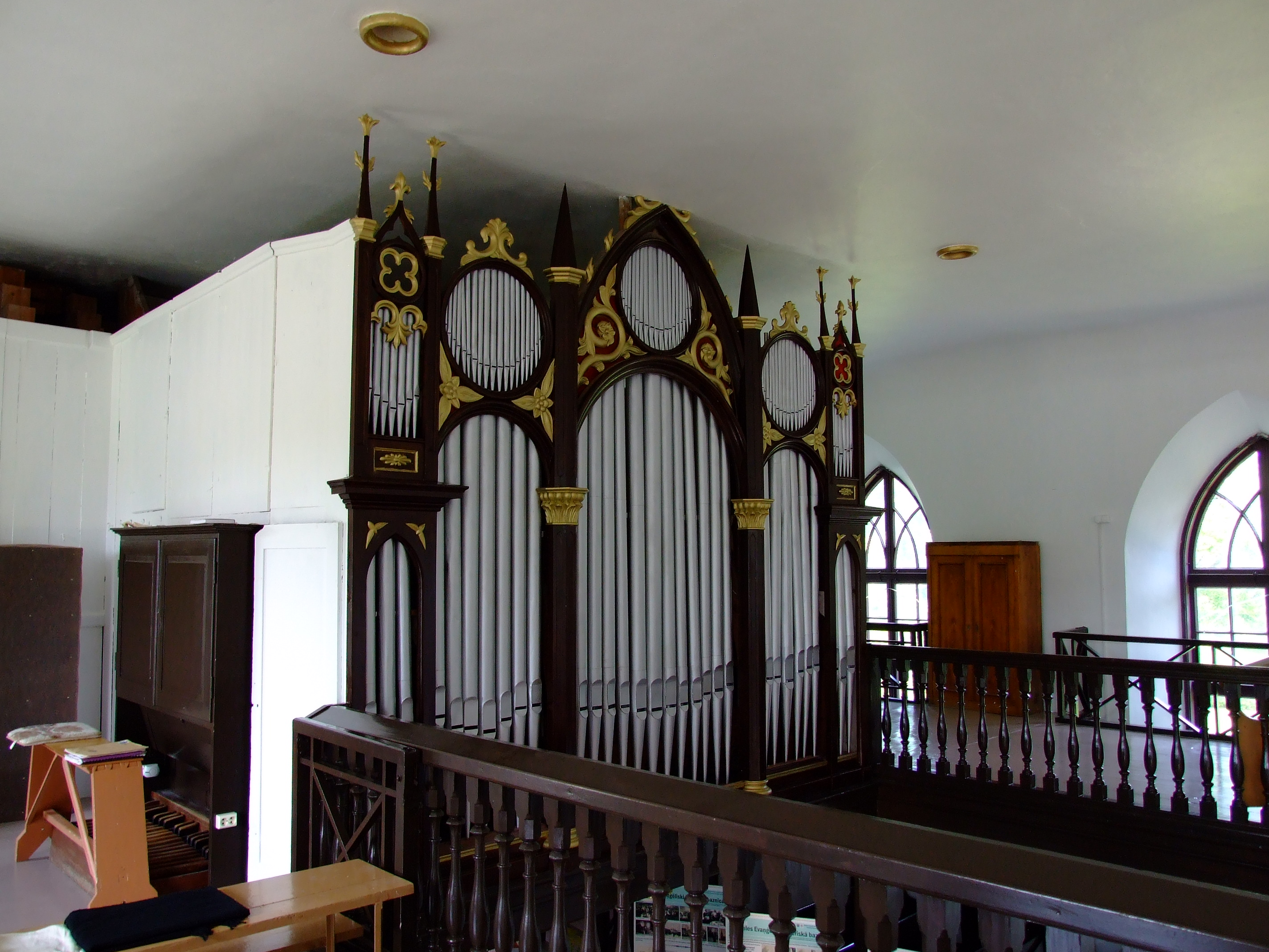 Organ pipes in Evangelical Lutheran Church of Dobele.